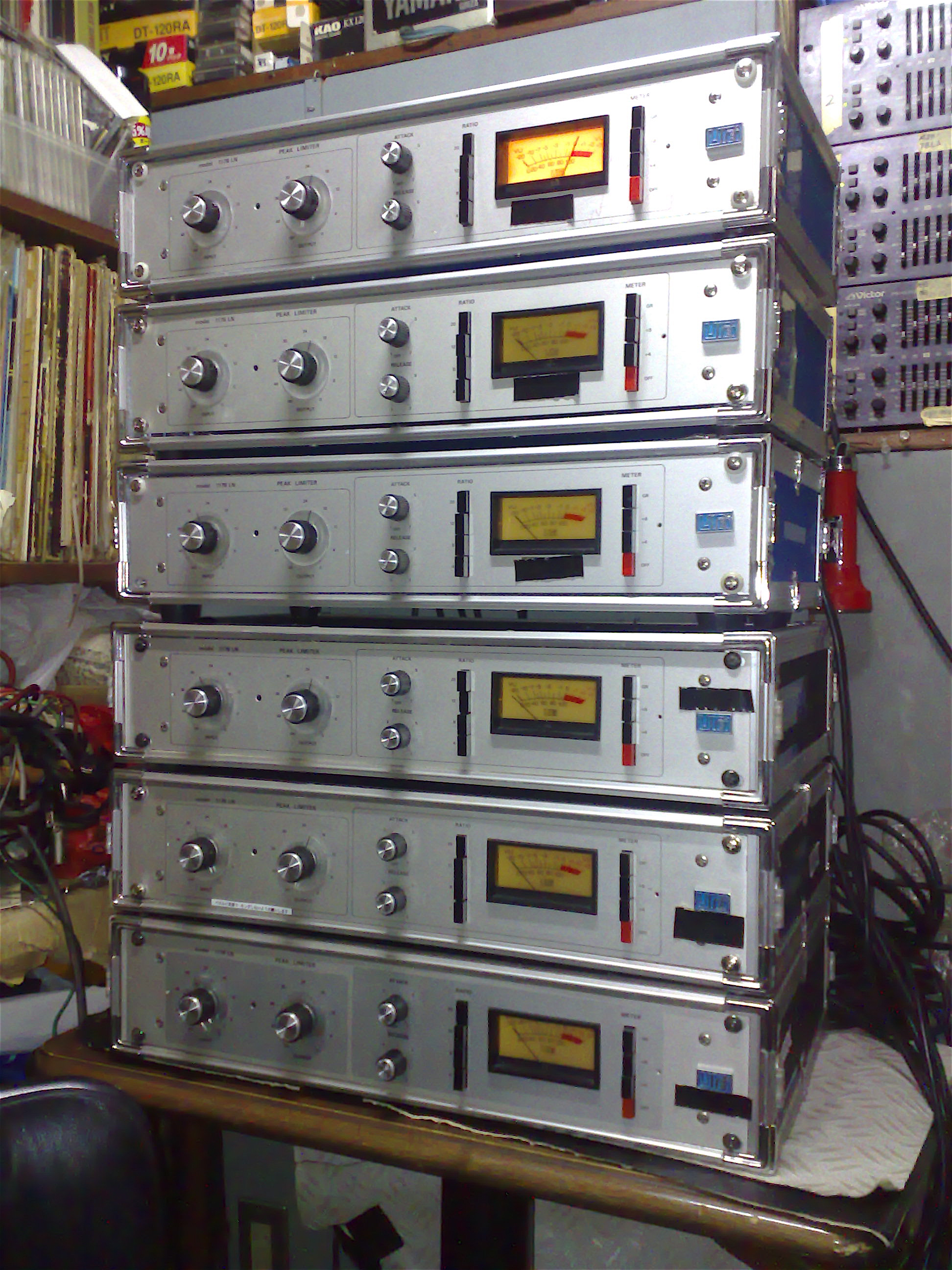 UREI 1176LN Peak Limiter x 6 External links UREI 1176LN (Silver) (photograph) Universal Audio 1176LN (Black)